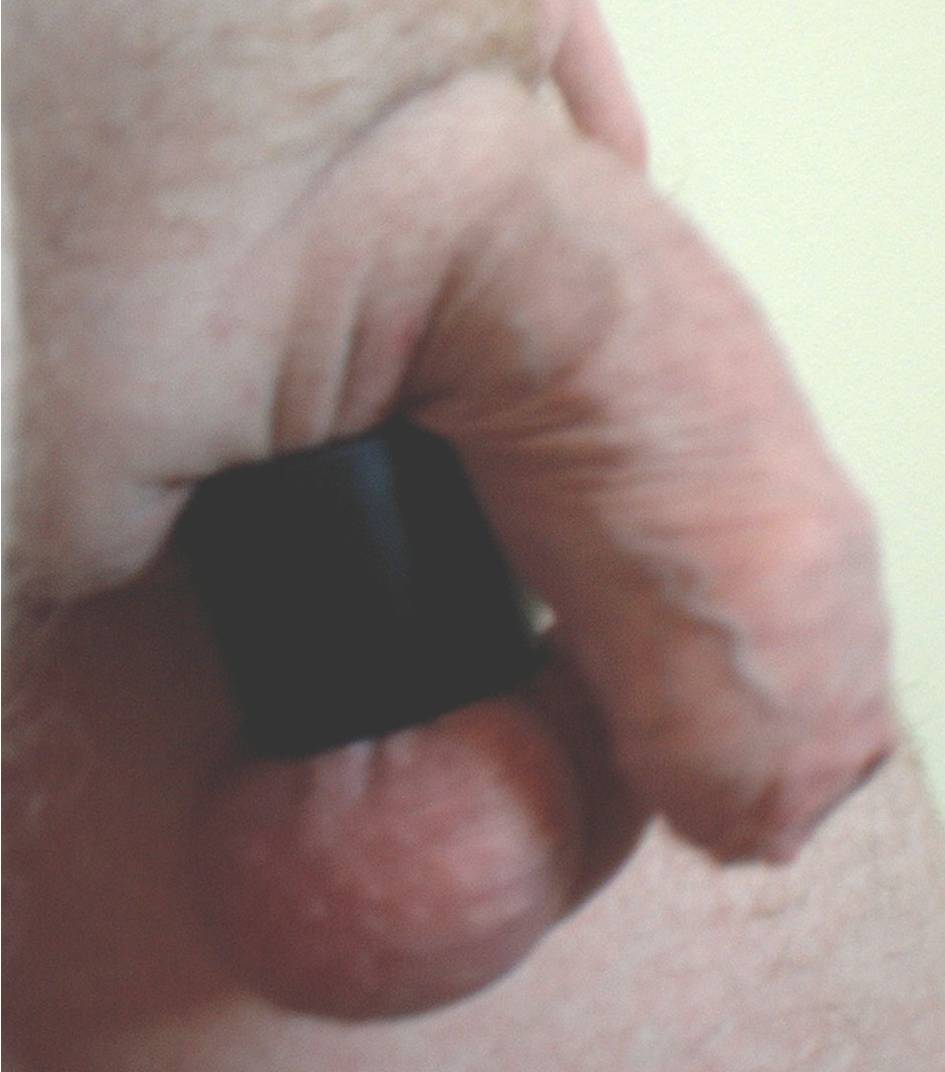 Ball stretcher.